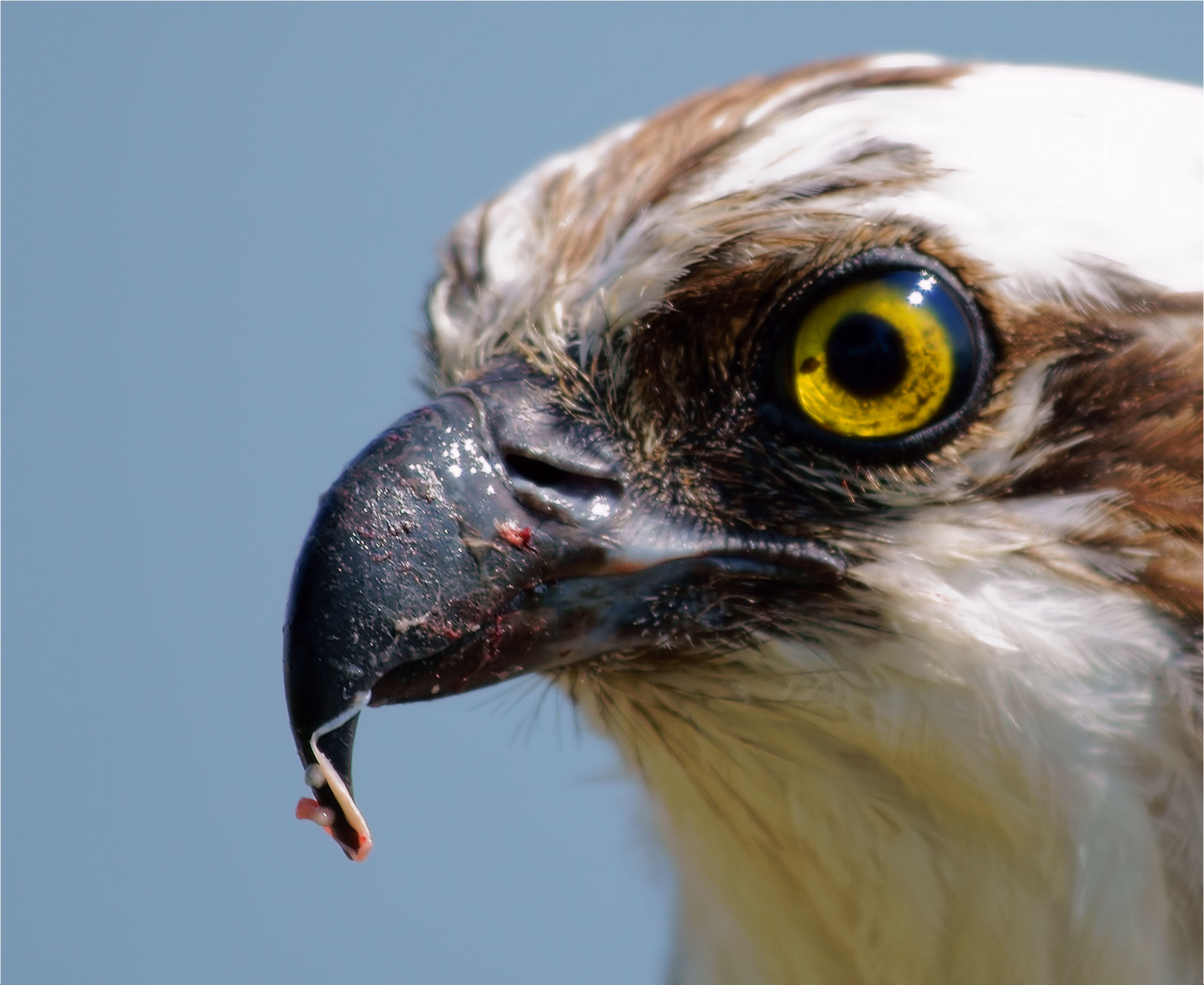 An Osprey in San Francisco Bay, California, USA. It has got small portions of fish offal on its beak.